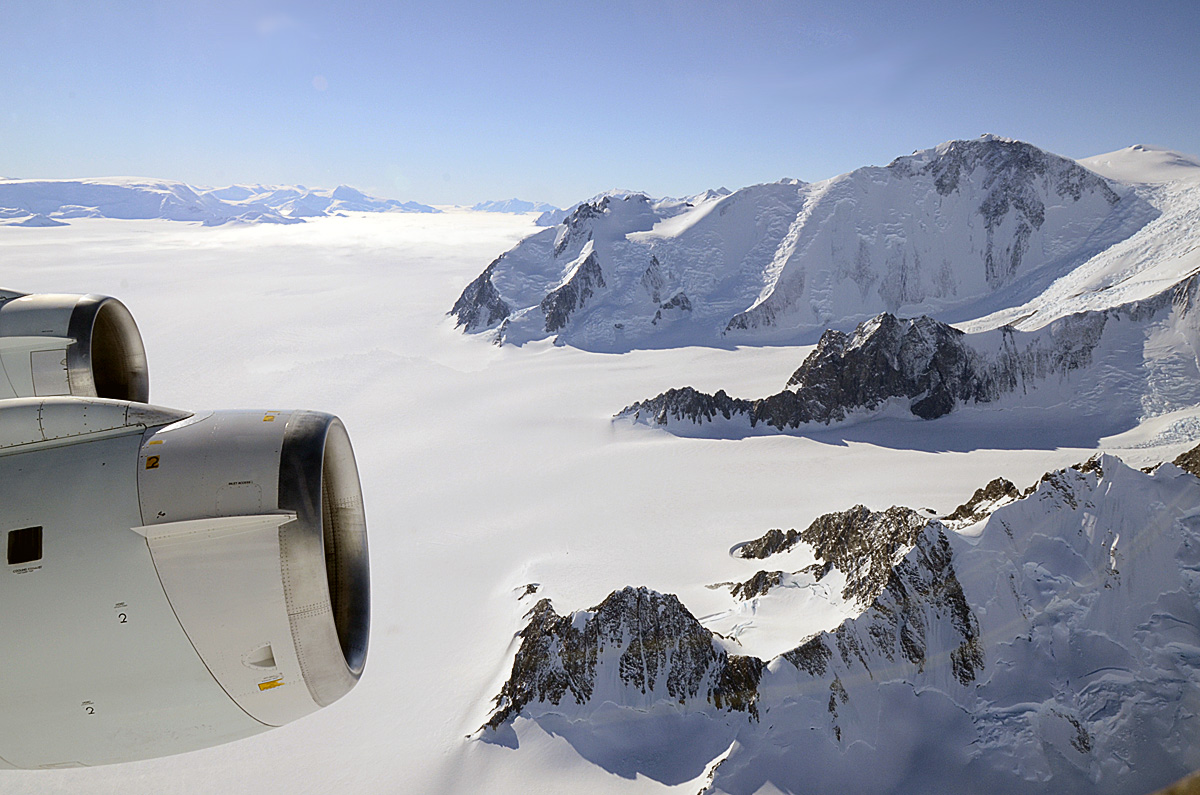 Alexander Island mountain range; seen from NASA's DC-8, Oct. 24, 2011.